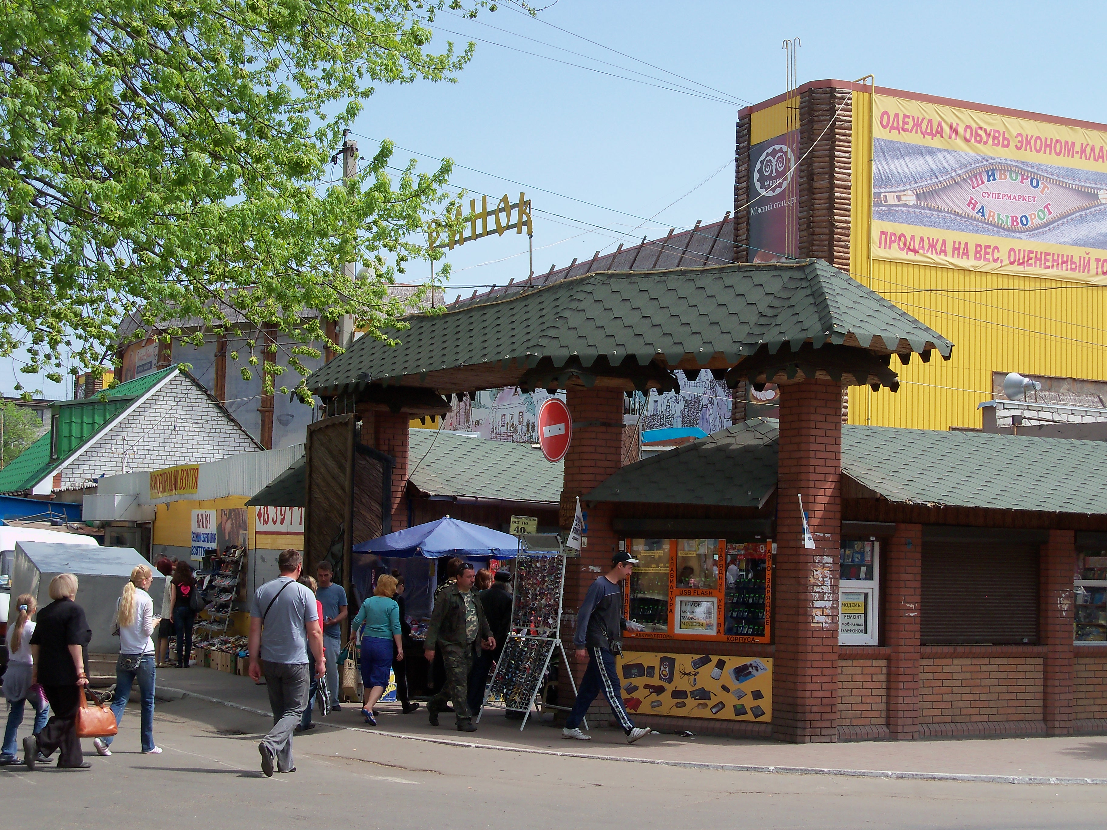 Tsentralnyi market in Kremenchuk